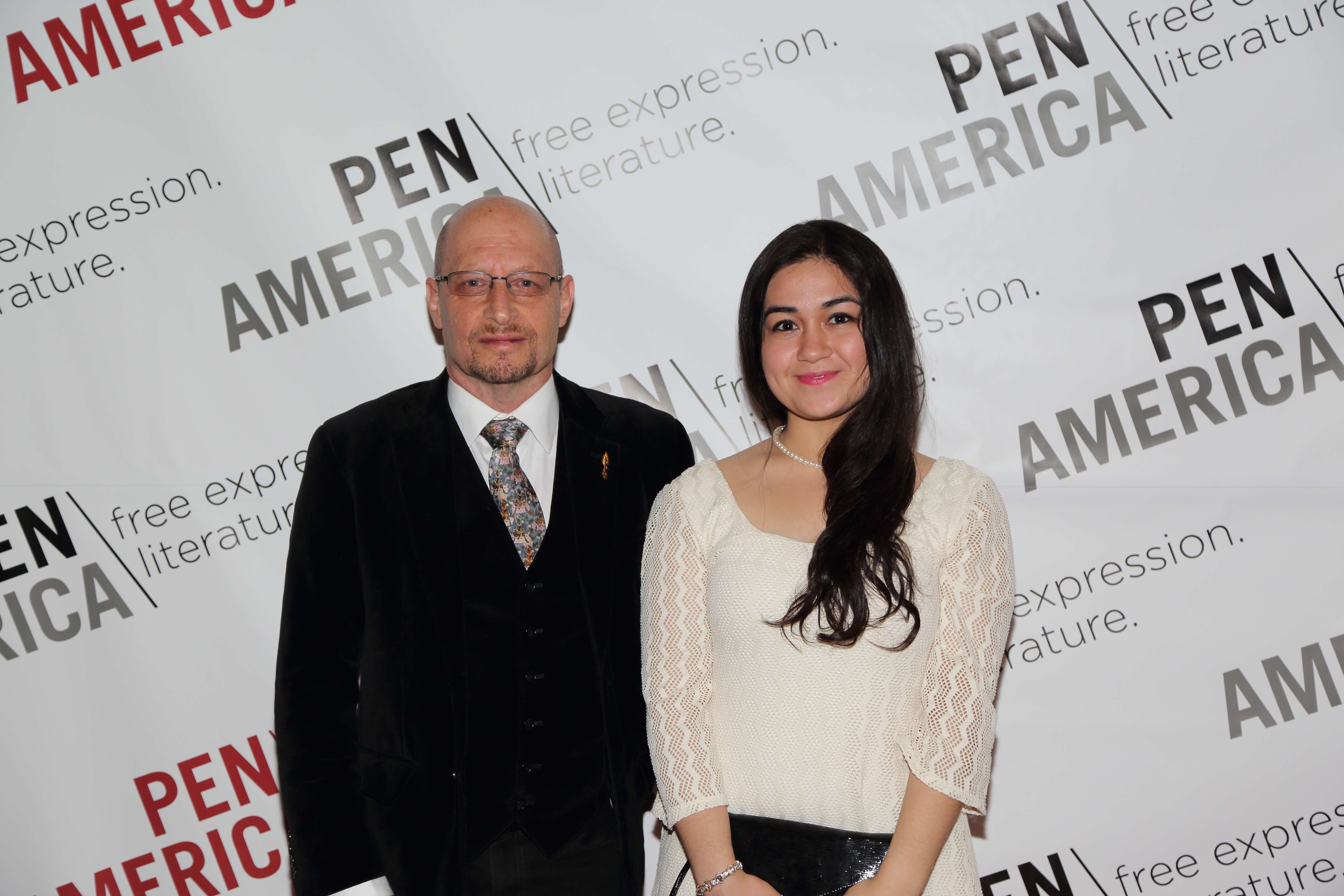 Elliot Sperling, -University of Indiana adn Jewher IIham © Ed Lederman/PEN American Center